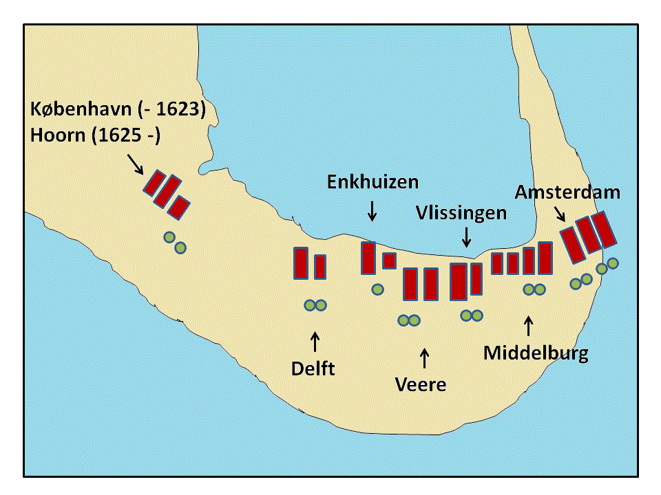 Map of the original Smeerenburg whaling settlement in Amsterdamøya Island, Svalbard (Norway). This Dutch settlement lasted 1617-1646. The warehouses (red) are denoted With the name of the city that owned them. The whare-oil ovens (green) are indicated With circles. Part of the settlement eventually was eroded away as the sea changed the configuration of the naze, and the most exposed buildings were probably torn away even in the 17th Century. Map produced by the uploader on powerpoint, based on research and map by professor L. Hacquebord, University of Groningen, Netherlands.